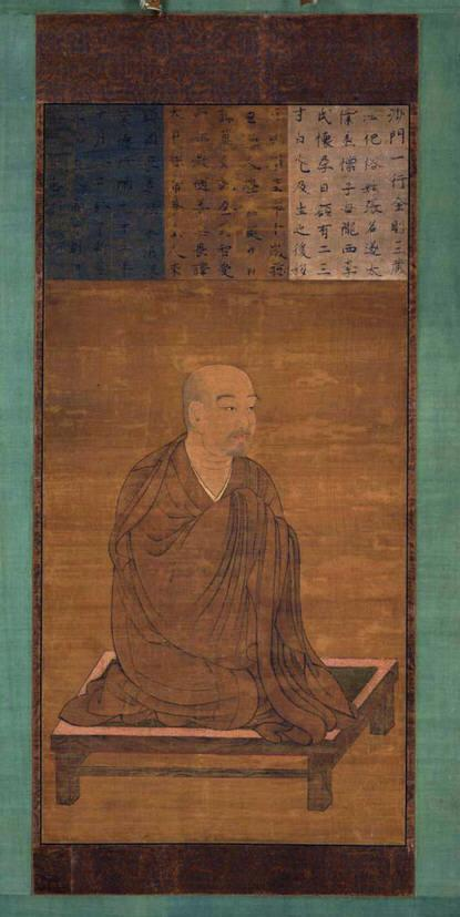 Yīxíng, 14 century, Kamakura, National Museum,Tokyo